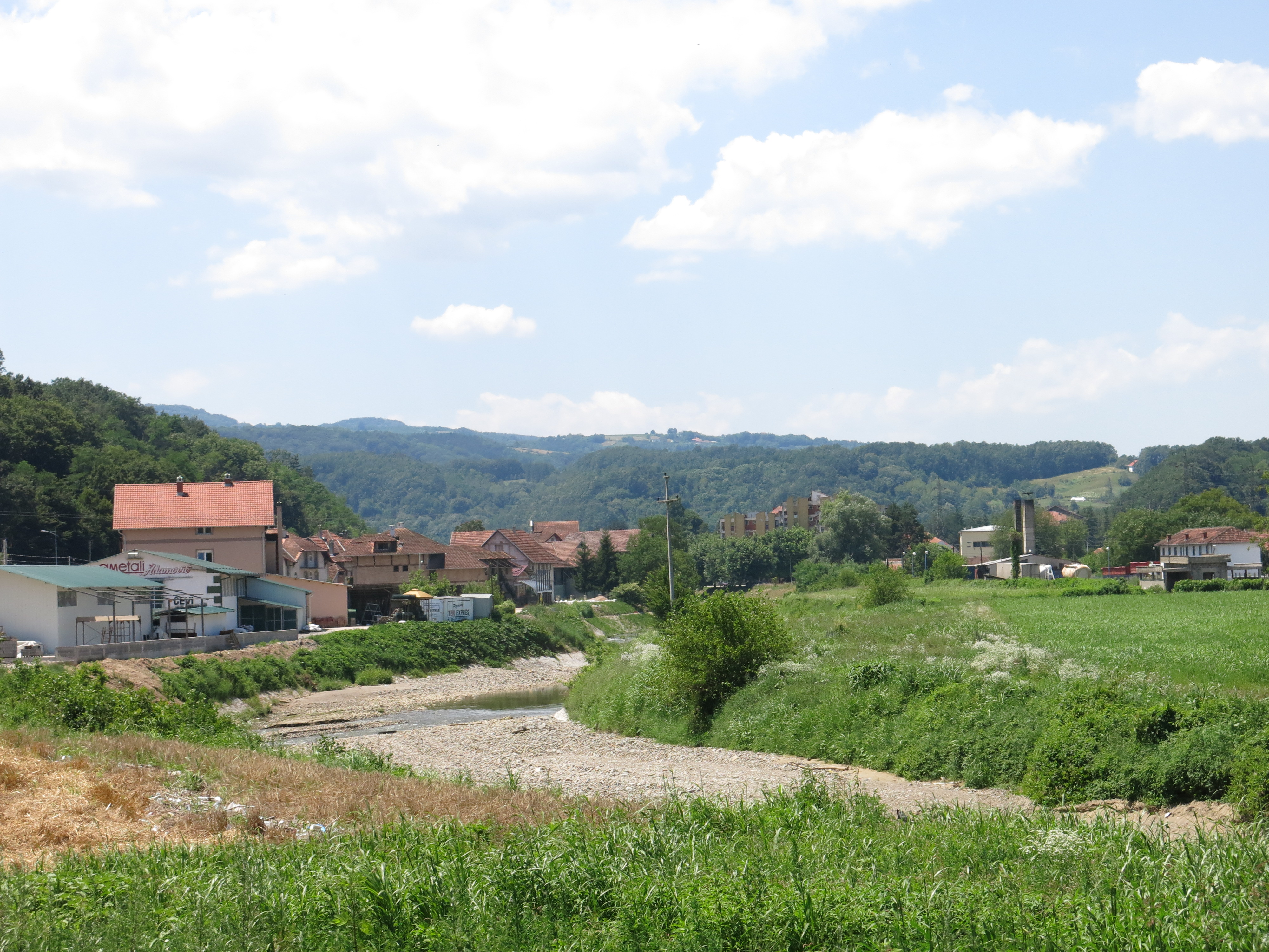 Ljig, Ljig river